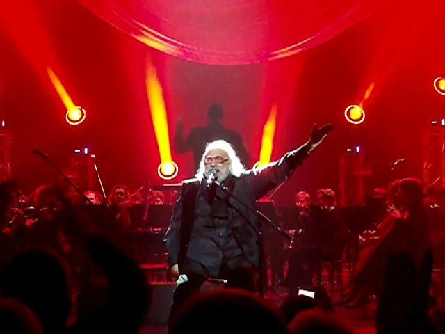 Demis Roussos in Kiev, Palace "Ukraine"